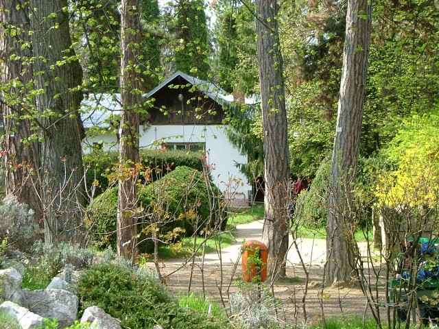 Botanical Garden in Cluj-Napoca. Near the Roman Garden. At right there are 2 roman coffins.